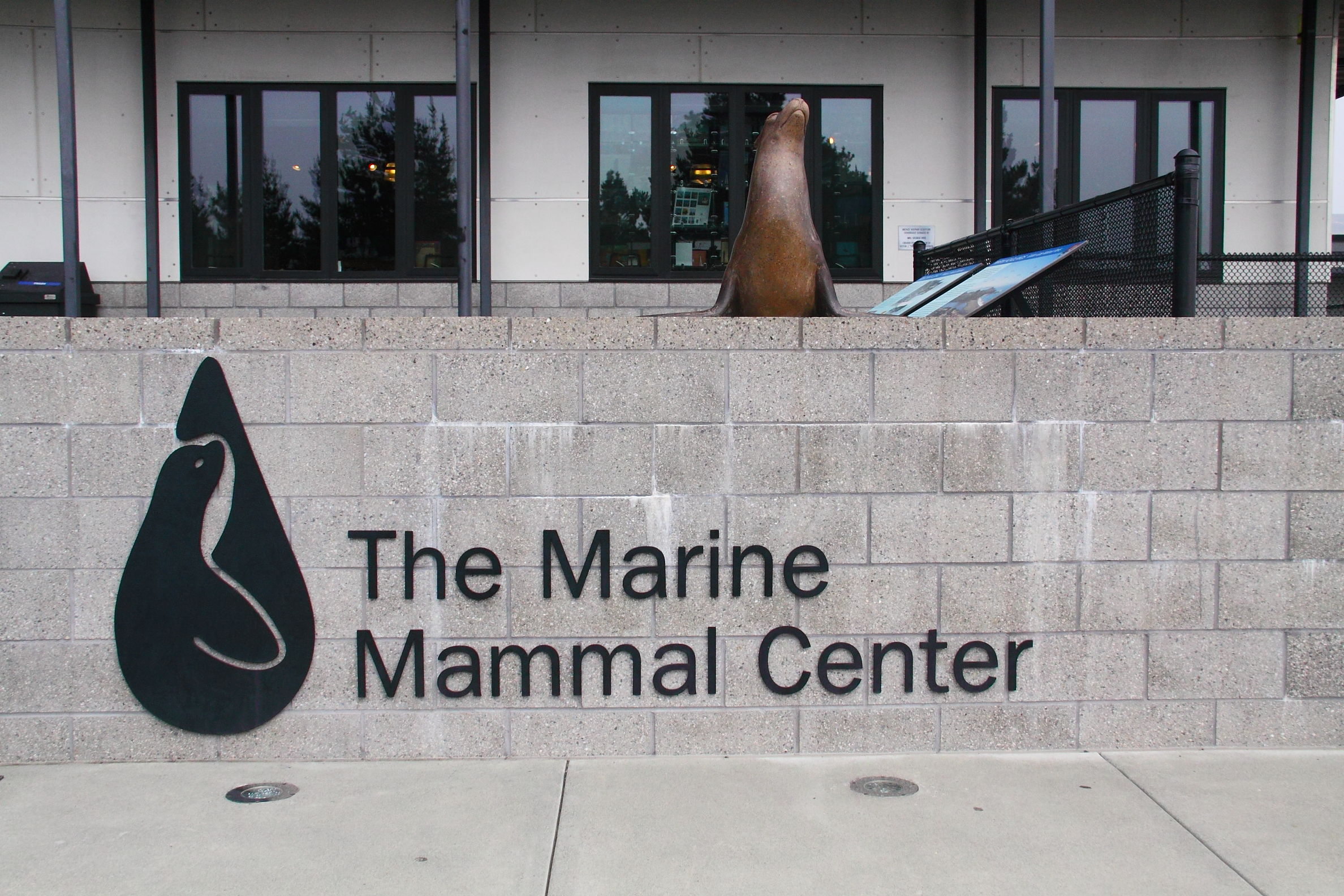 Picture of front entrance to Marine Mammal Center in the Marin Headlands.